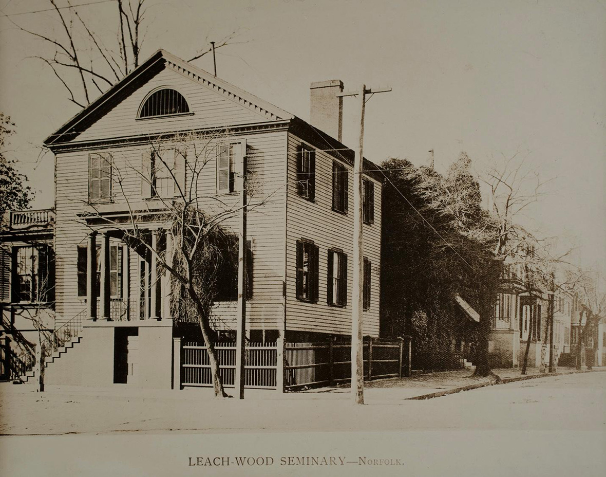 The original Leache-Wood Seminary.